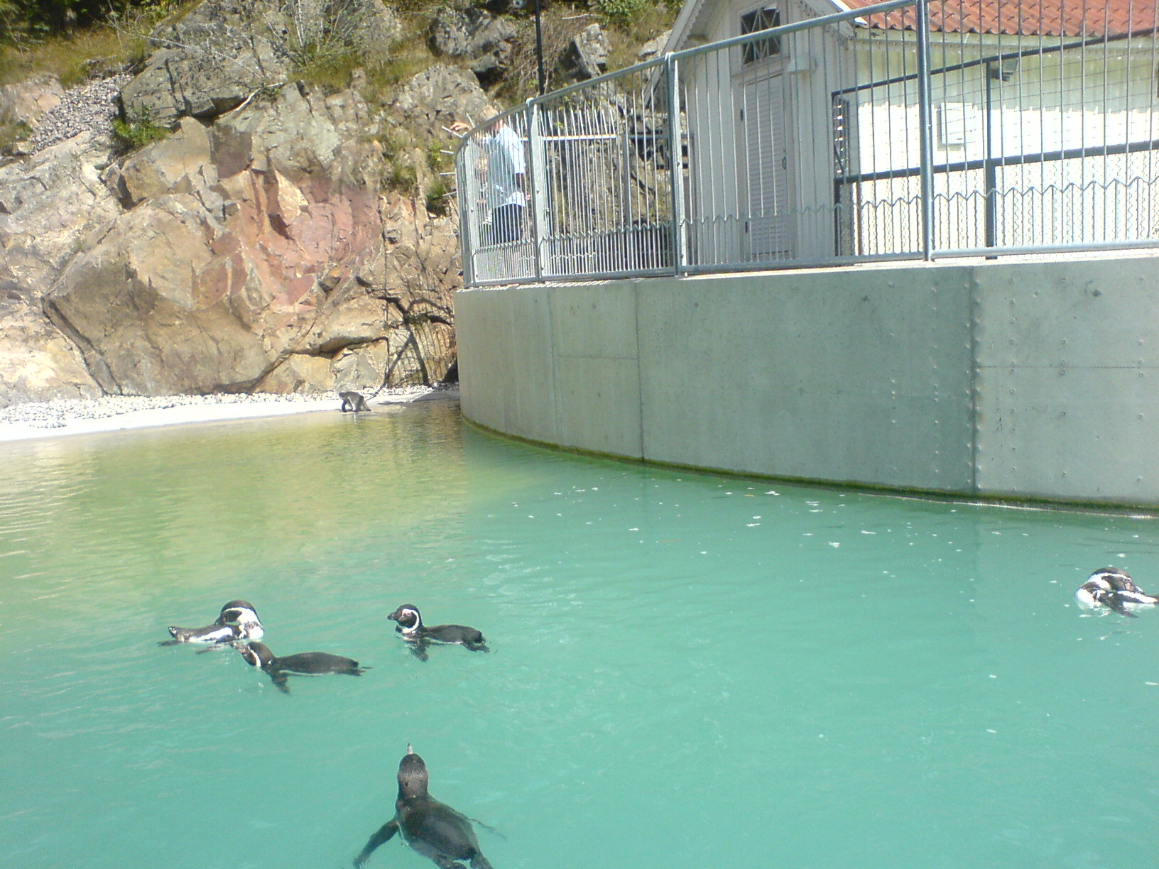 Penguins at Slottskogen, Gothenburg.